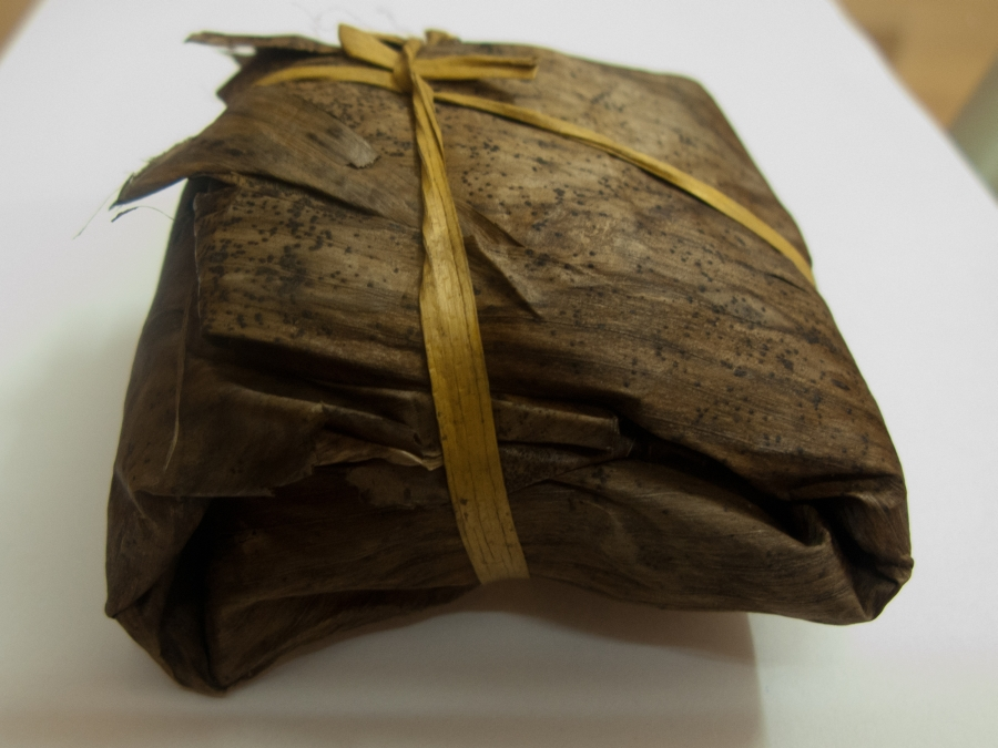 A wrapped bánh gai.